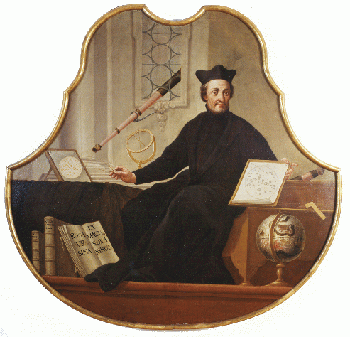 Portrait of the german astronomer Christoph Scheiner.